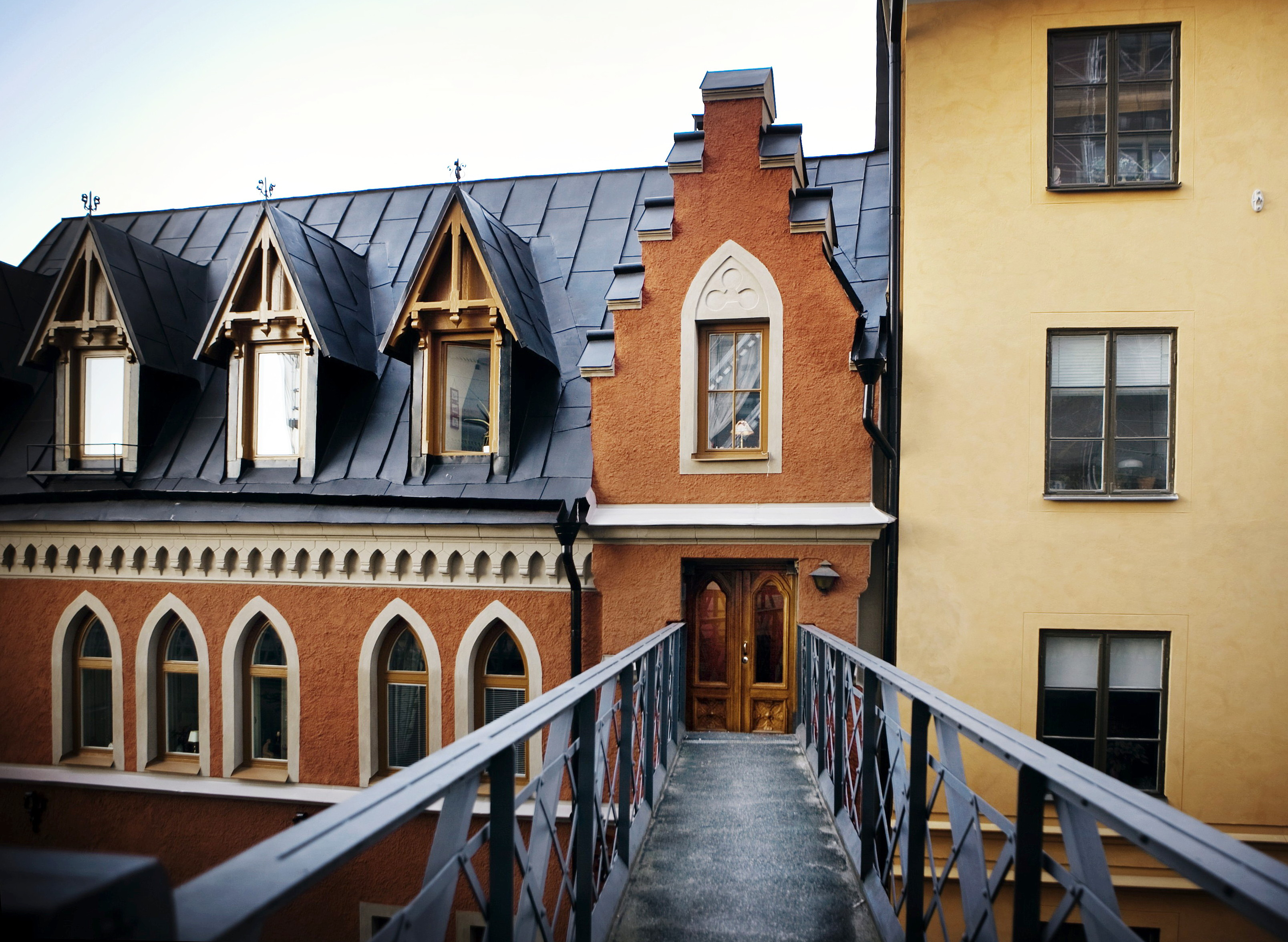 The Millennium tour. Guidad tour i stockholm med Stieg Larssons Millenniumtrilogi som tema. Huset Bellmansgatan 1 där romanfiguren Mikael Blomkvist bodde.